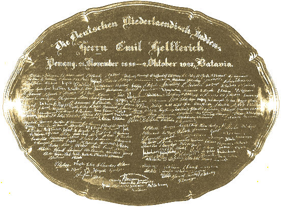 Helfferich collection in the East Asia Institute of Ludwigshafen in Germany